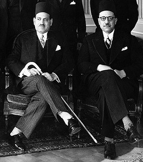 Elnahas with makram